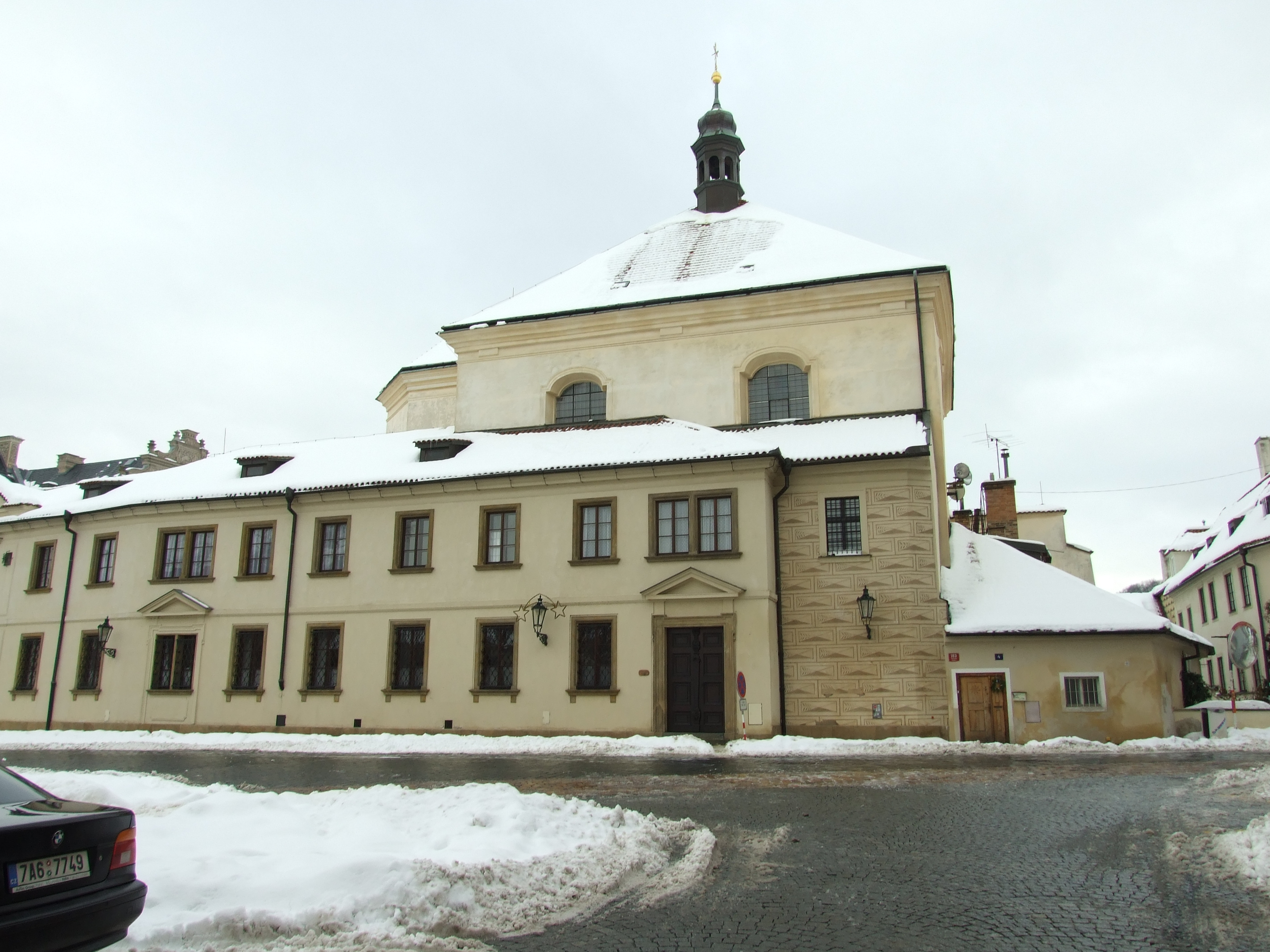 St Benedictus church in Prague-Hradčany, Hradčanské náměstí. The city was covered by snow in January 2010. Prague, CZhelp